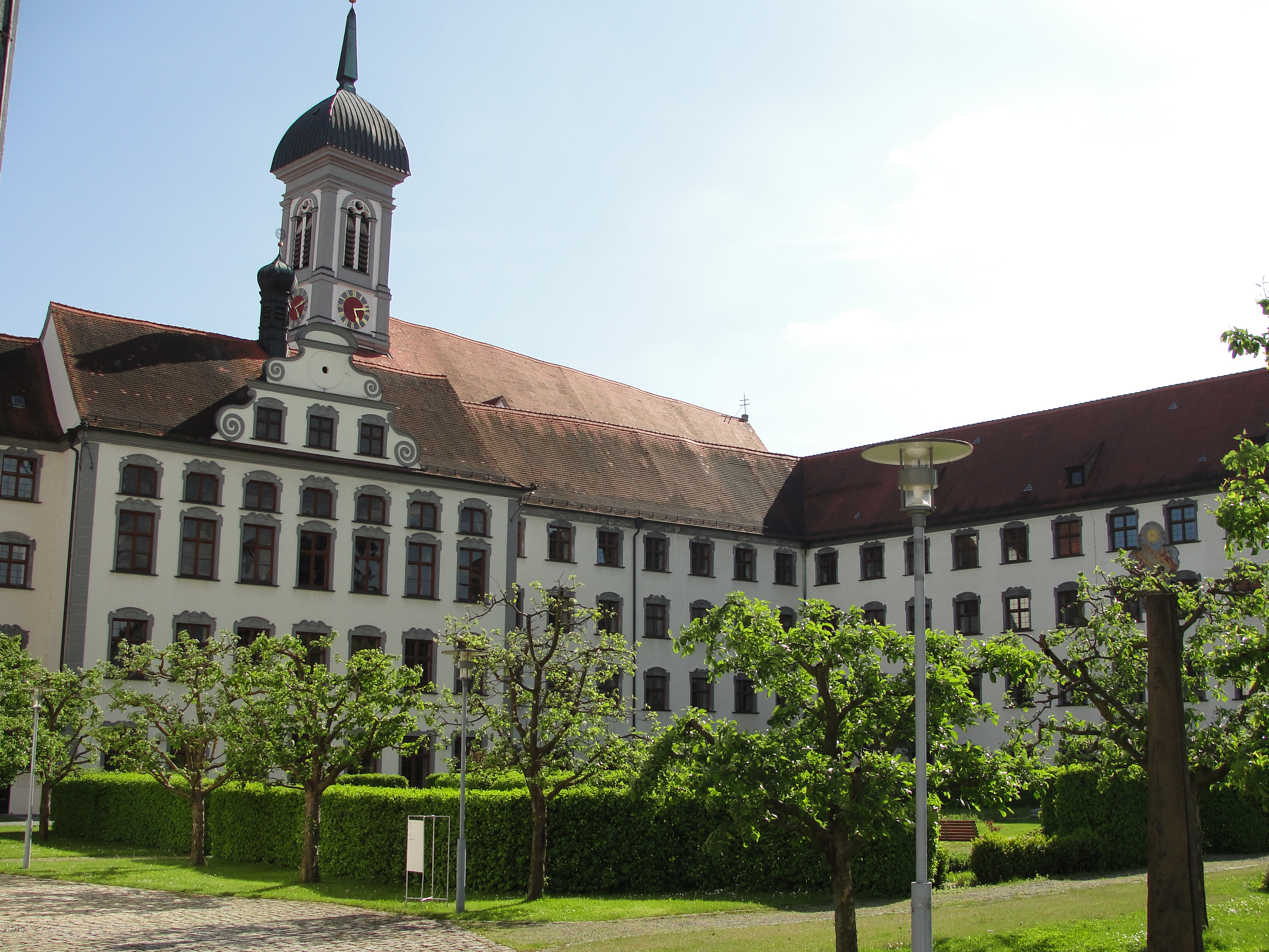 The courtyard of the College